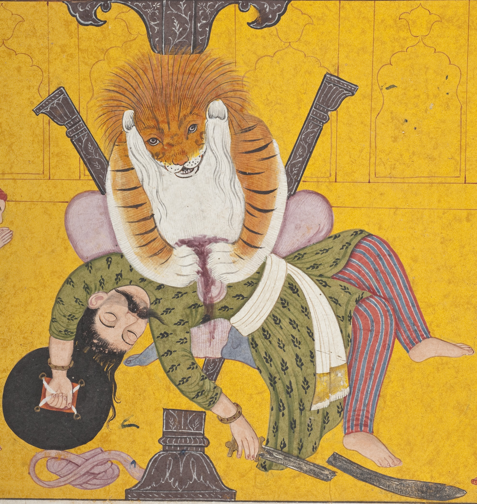 India, Himachal Pradesh, Nurpur, circa 1760-1770 Drawings; watercolors Opaque watercolor and gold on paper Sheet: 5 7/8 x 9 1/2 in. (14.92 x 24.13 cm); Image: 4 3/4 x 9 1/4 in. (12.07 x 23.5 cm) From the Nasli and Alice Heeramaneck Collection, Museum Associates Purchase (M.82.42.8) South and Southeast Asian Art